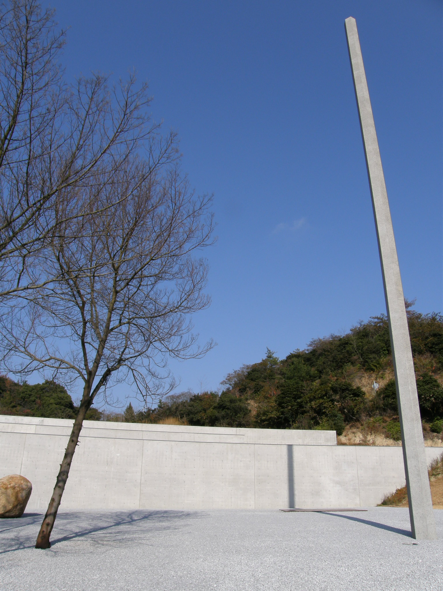 Lee Ufan Museum sculpture courtyard . Contemporary art museum in Kagawa prefecture, Japan. Collaborative work of Tadao Ando and Lee U-Fan.